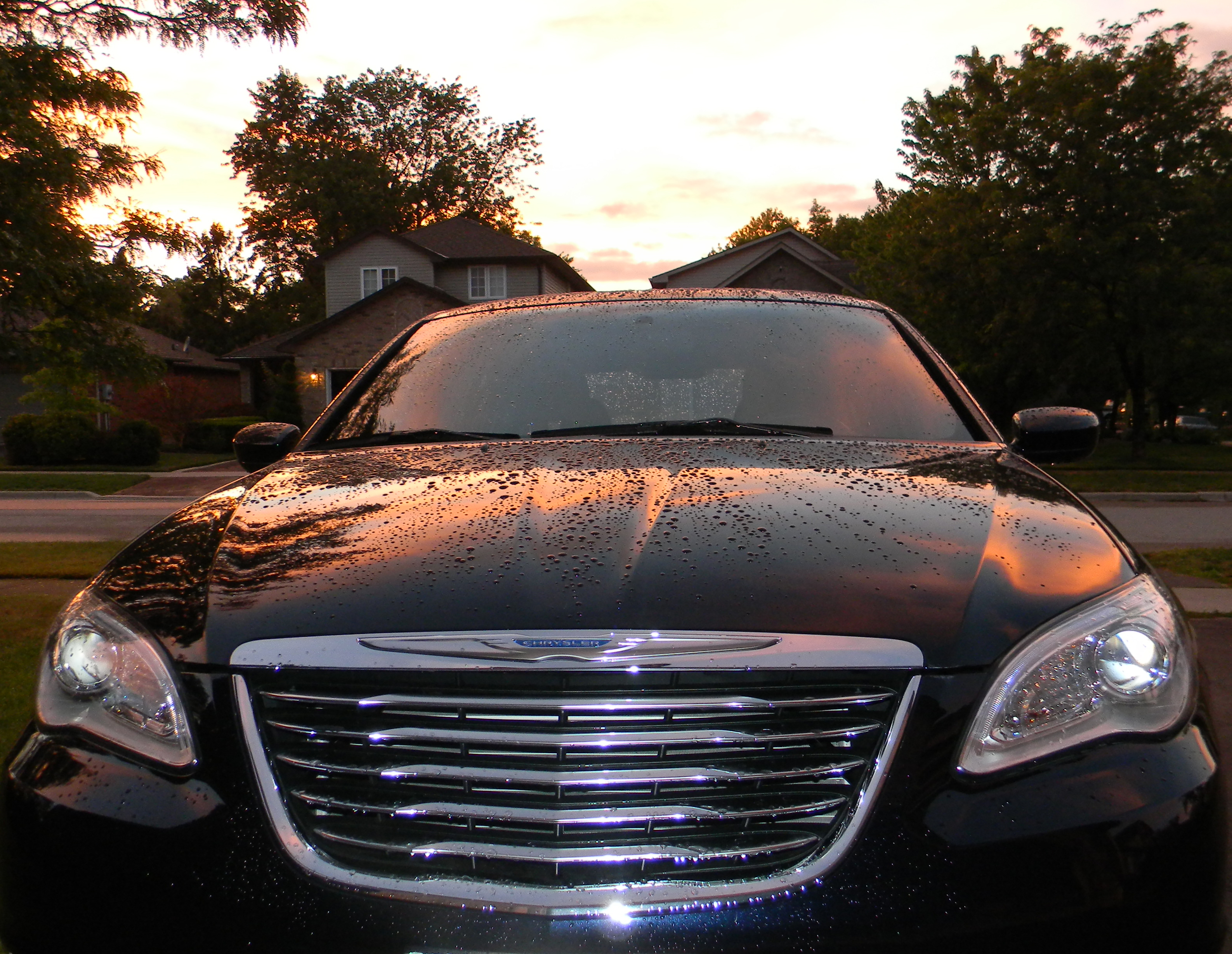 2012 Chrysler 200 LX photographed in Canada.